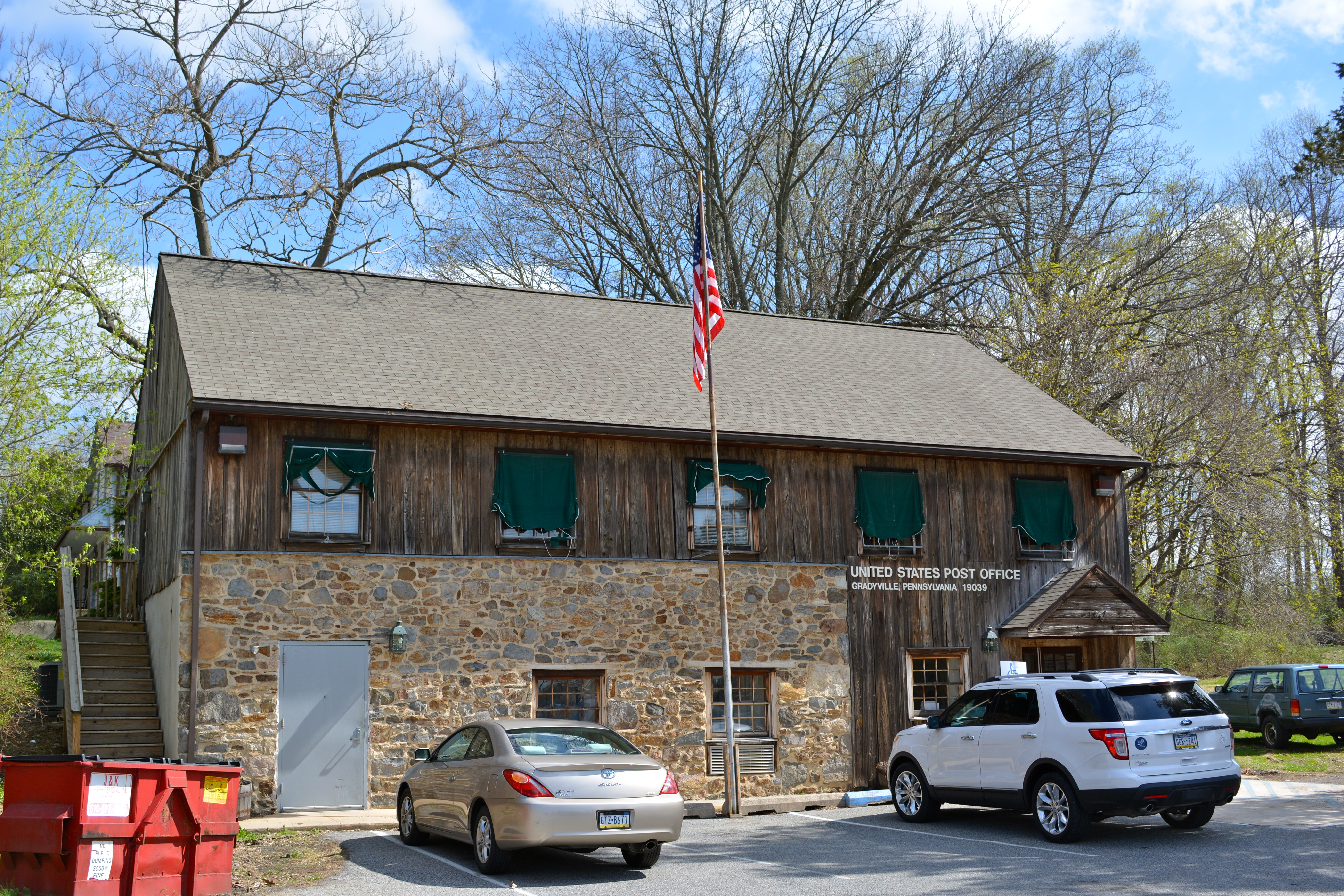 Post office in Gradyville, PA zipcode 19039, at corner of Middletown Rd and Gradyville Road, near Ridley Creek State Park